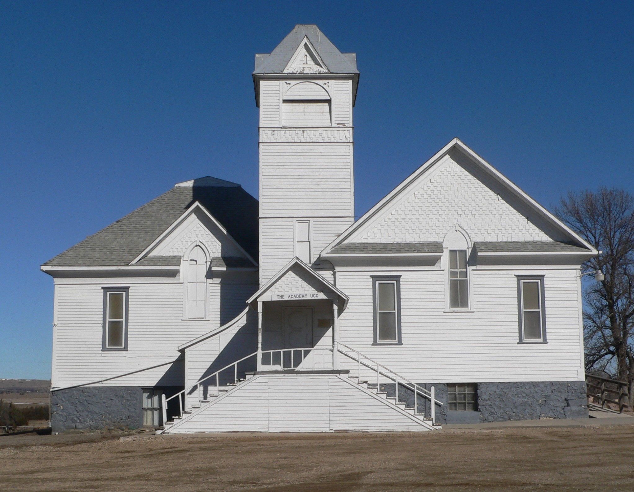 United Church of Christ in Academy, Charles Mix County, South Dakota; seen from the south.